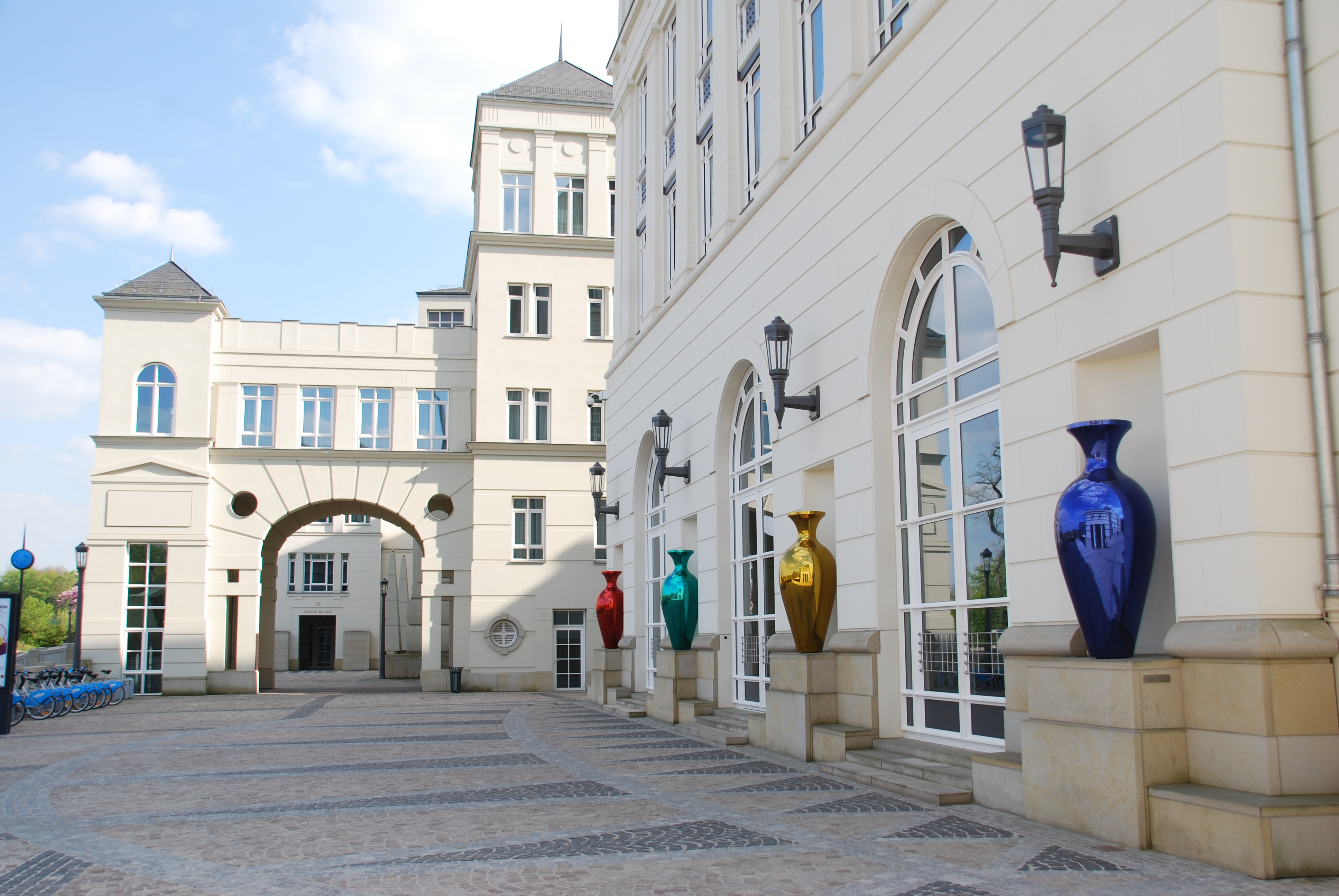 City of Luxembourg: Cité Judiciaire.